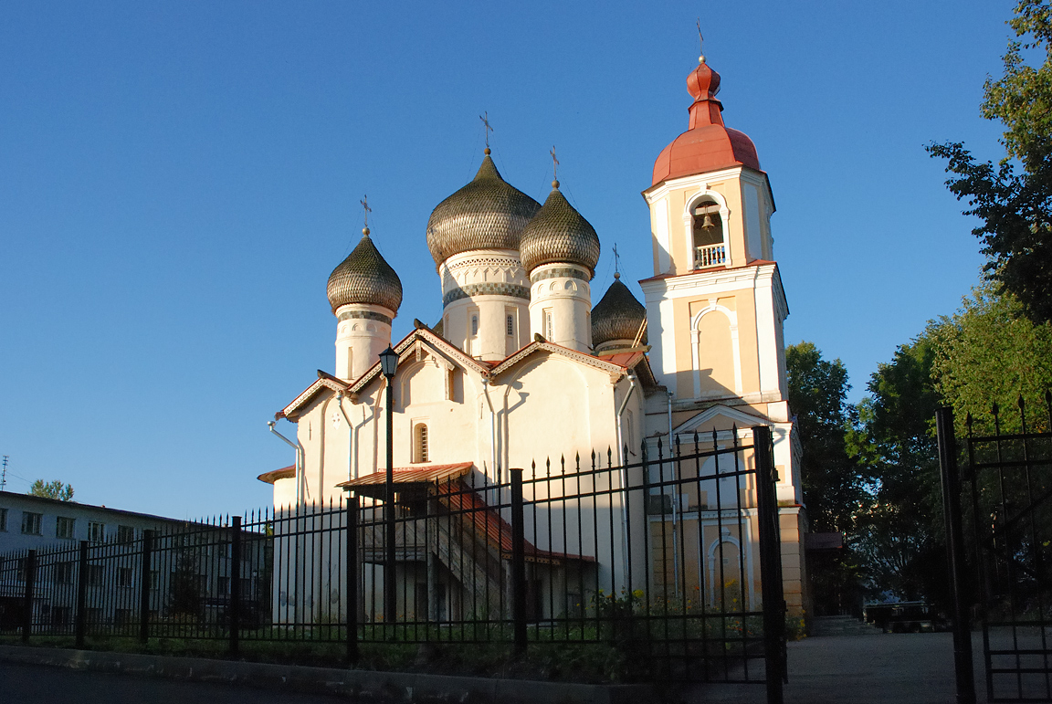 Veliky Novgorod, Church of St Theodore Stratelates on Shchirkova Street.